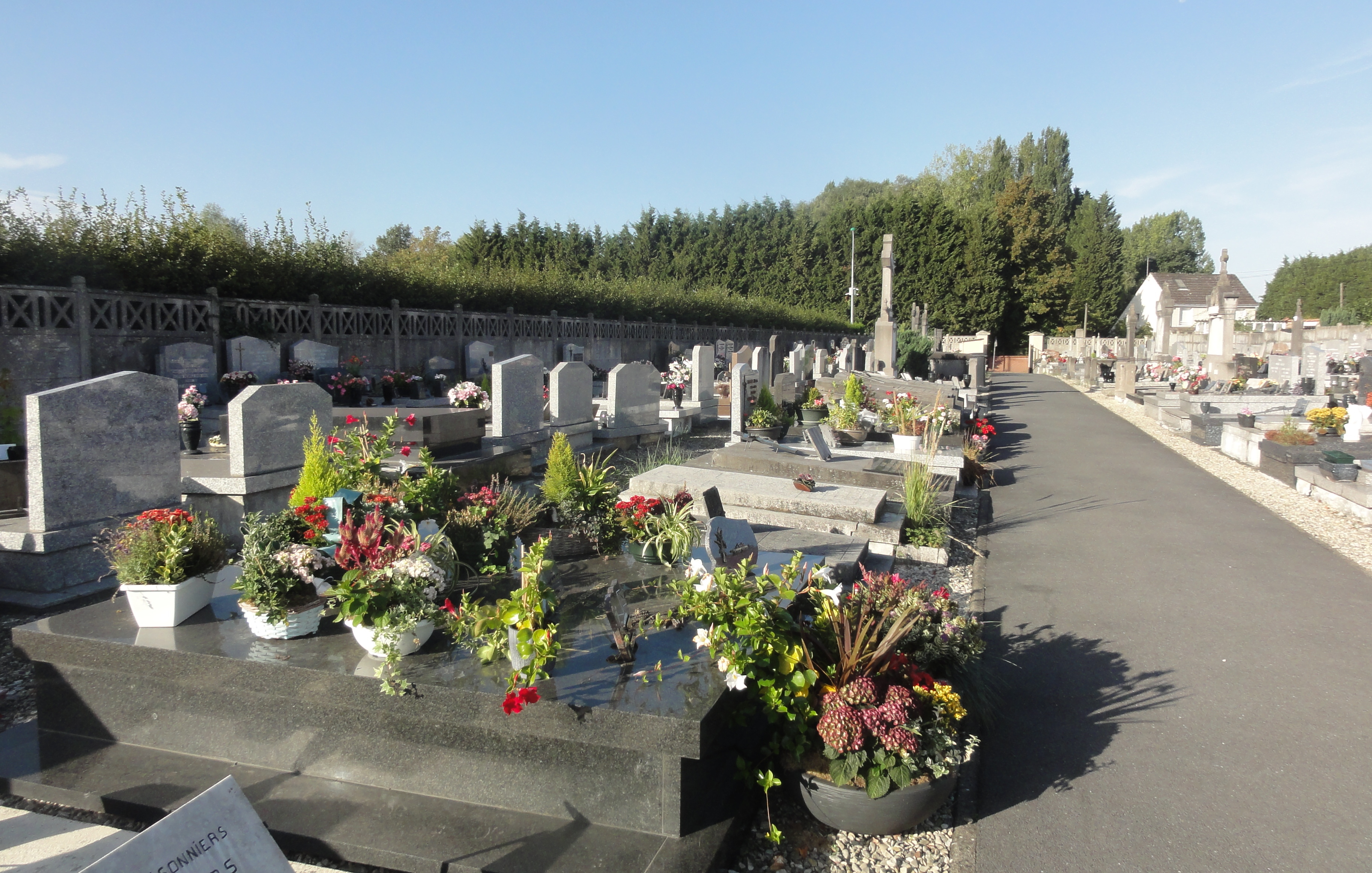 Grave of Q63242223 Depicted place: Q55378336